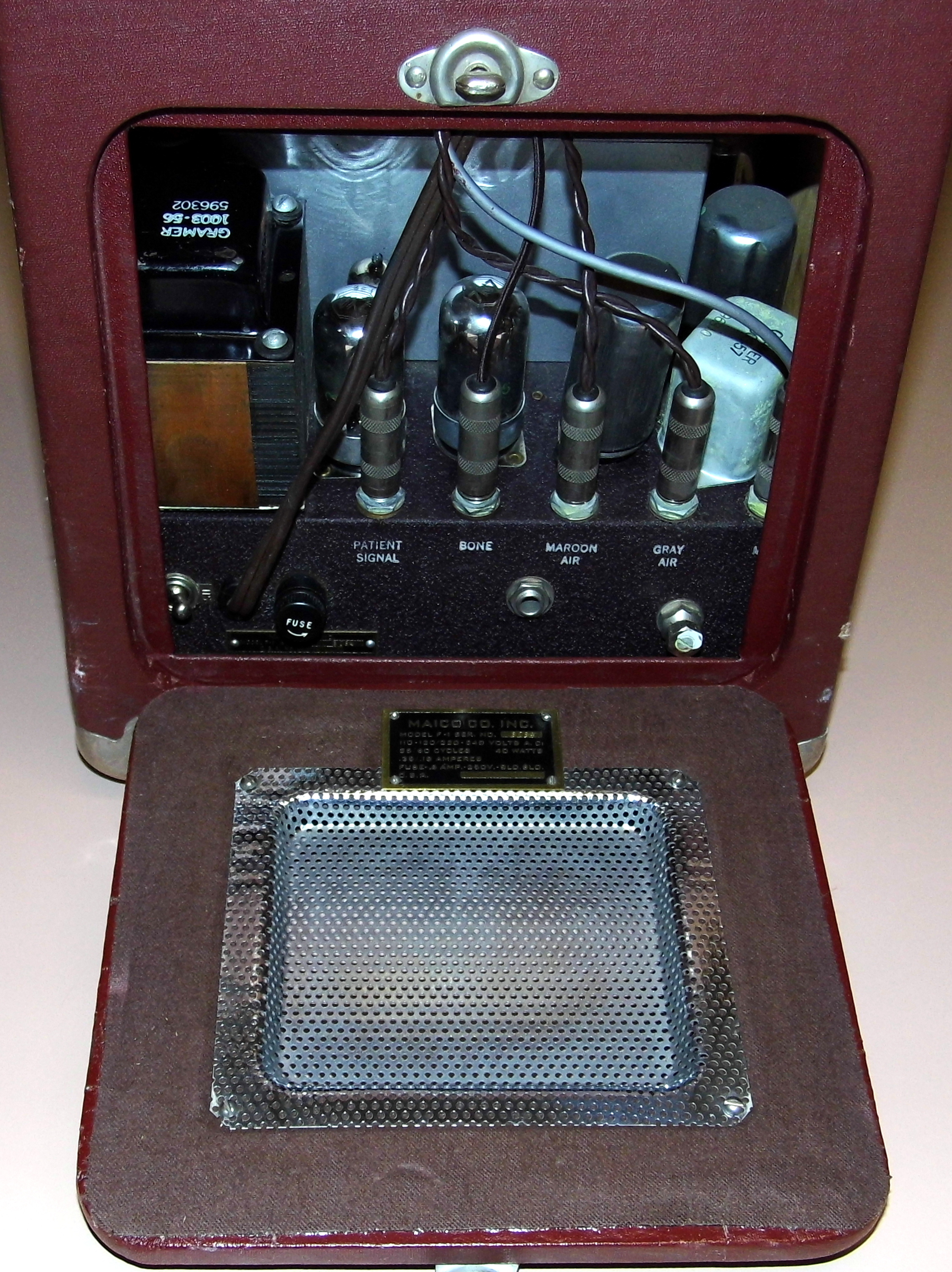 Vintage Maico Model F-1 Portable Audiometer Hearing Tester, Vacuum Tube Unit, Circa 1960s